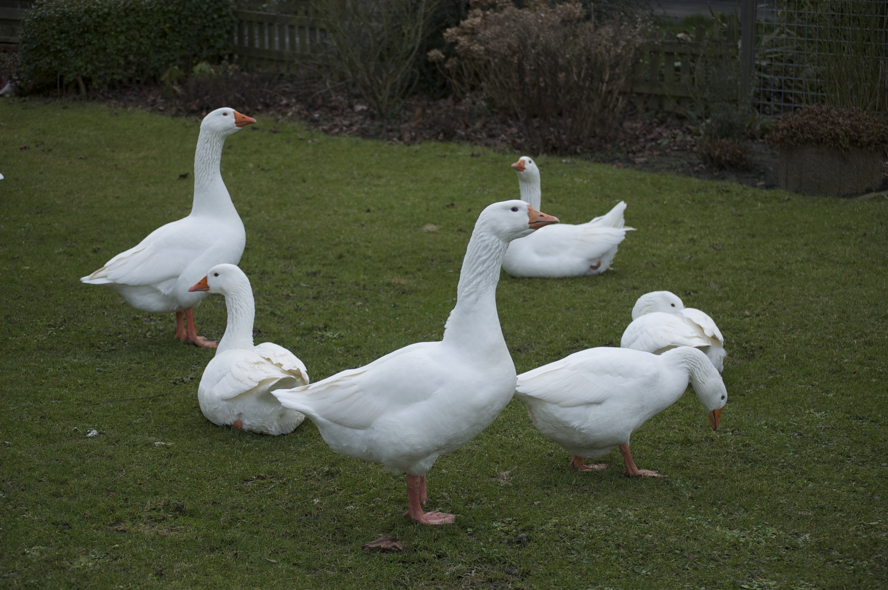 White geese on the grass, Capelle aan den IJssel.